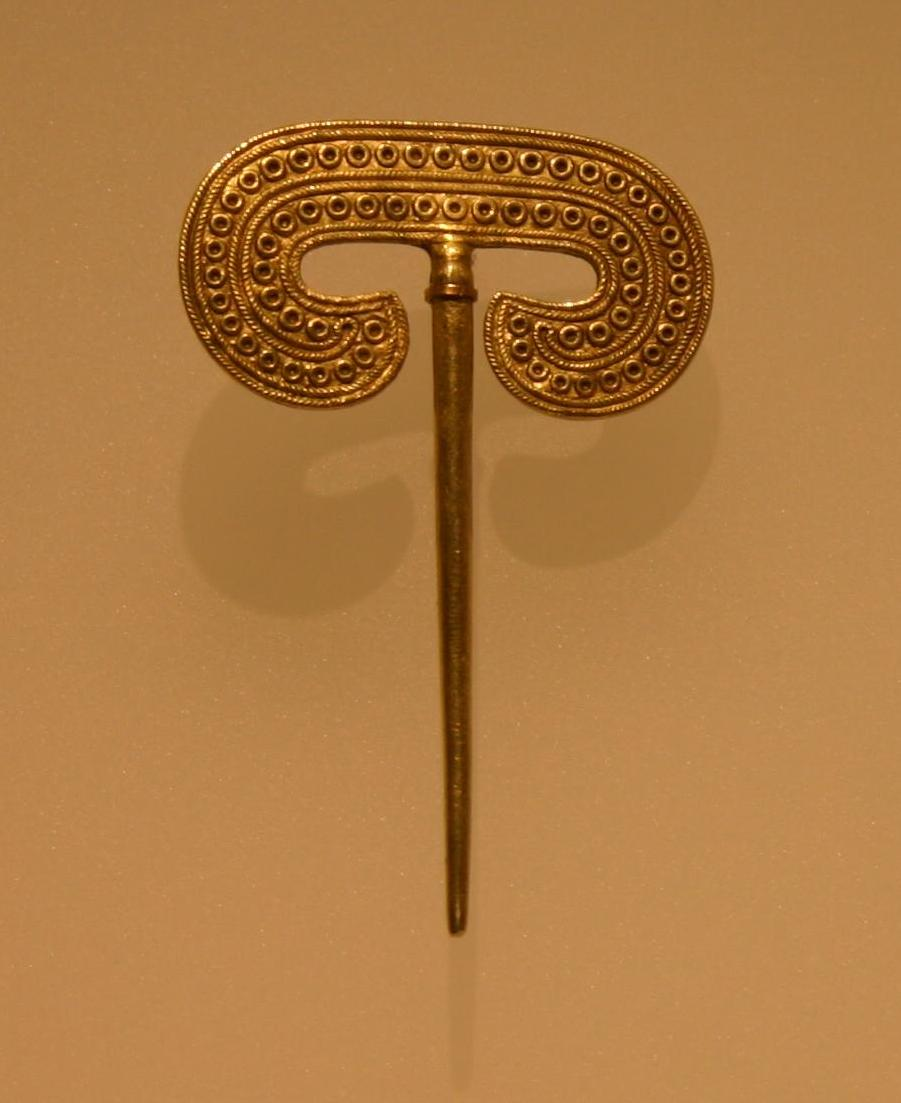 With thanks to the Georgian National Museum for allowing photography